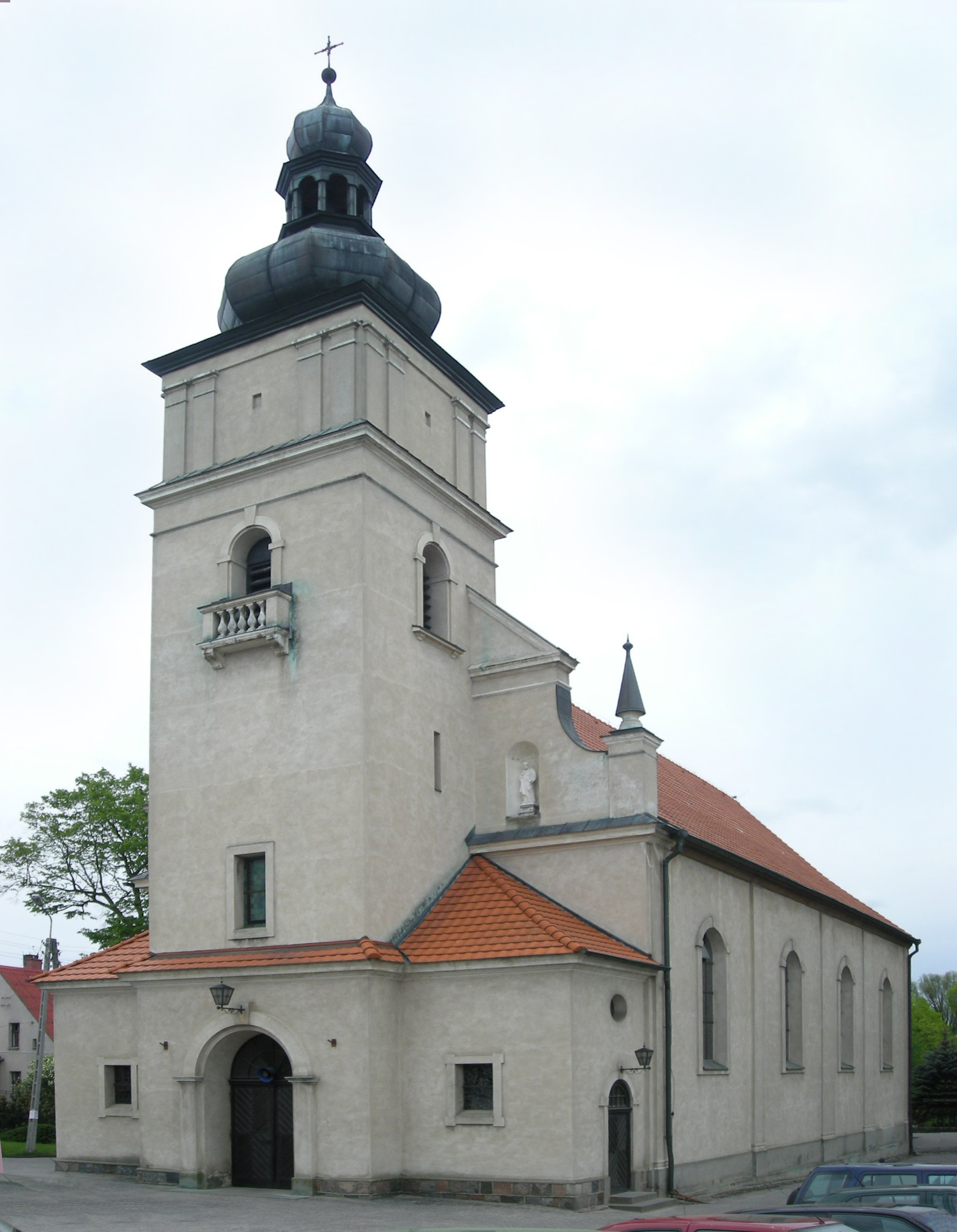 The church in Sępólno Krajeńskie, Poland.